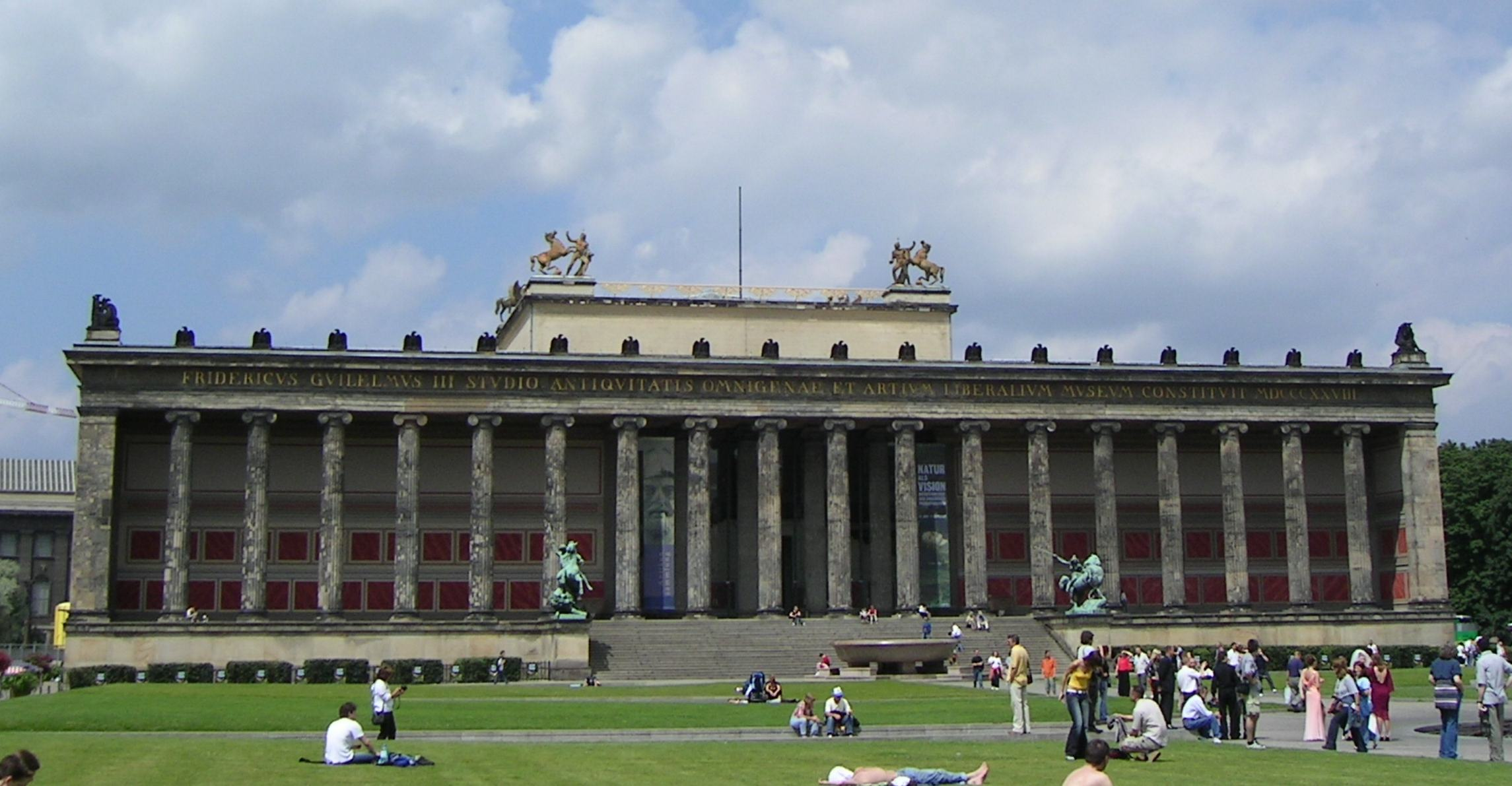 Altes Museum in Berlin, Germany